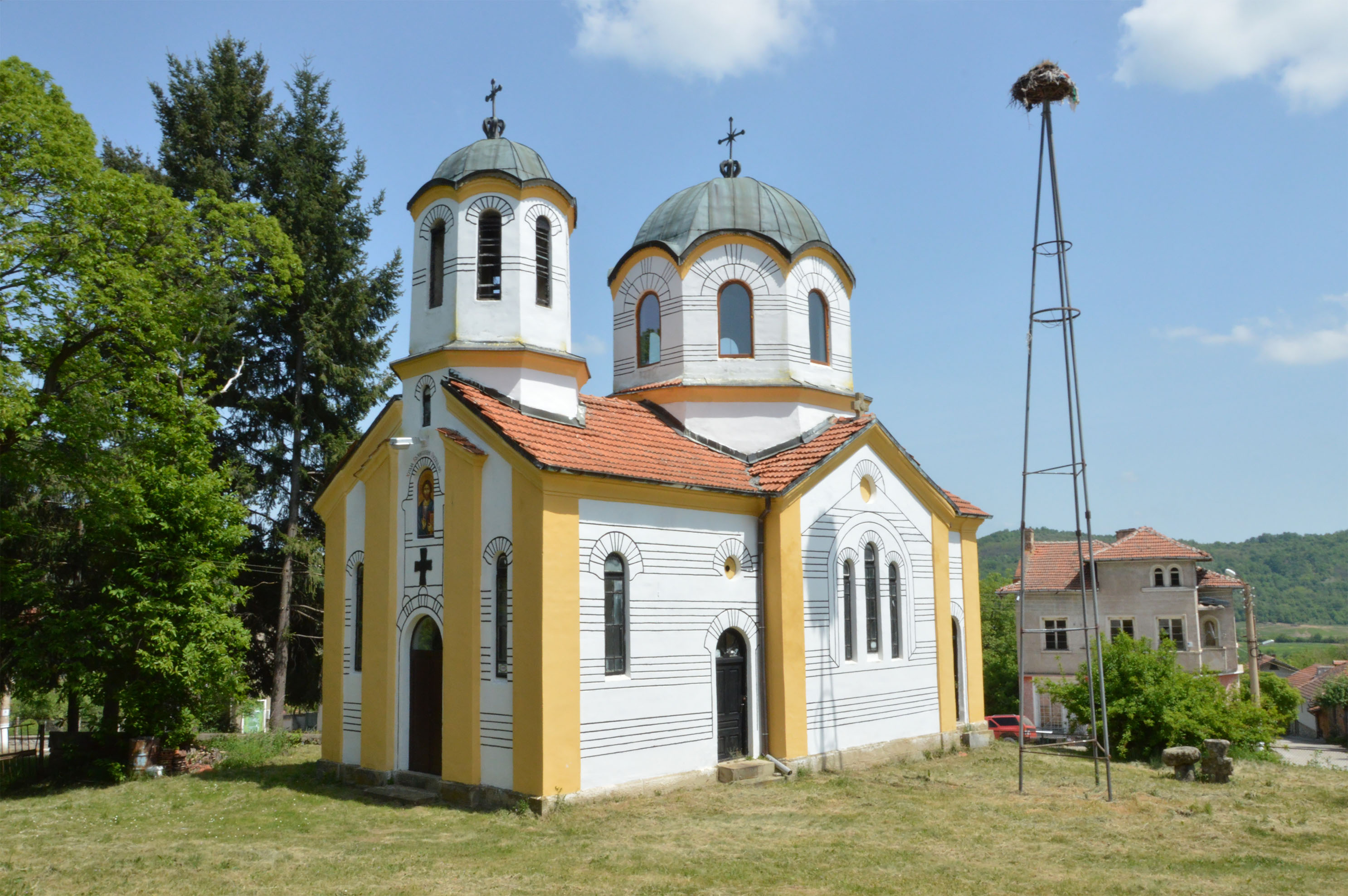 "Ascension of Christ" Church in Rashkovo, Sofia District, Bulgaria.